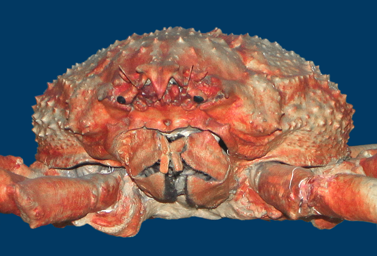 Macrocheira kaempferi, Inachidae, Japanese Spider Crab, body frontal; Staatliches Museum für Naturkunde Karlsruhe, Germany.